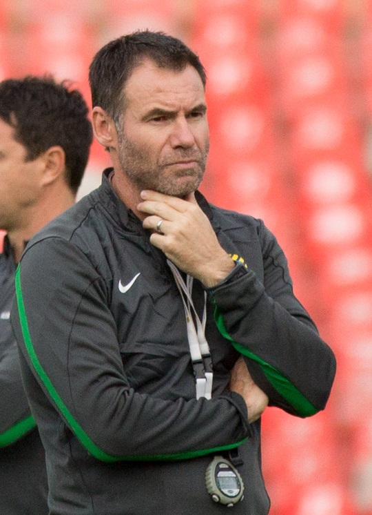 Ante Milicic with Socceroos coaching staff. This is a cropped image from a larger photo.